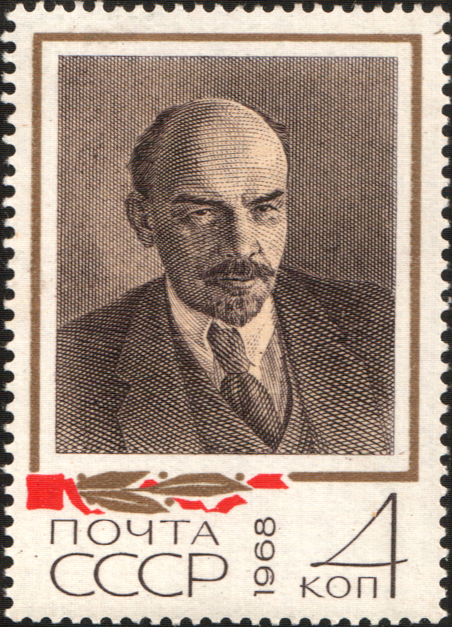 USSR stamp: Fullface Portrait of Lenin, Petrograd, January 1918 (Photo of Moshe Nappelbaum). Series: 98th Anniversary of Birth of Vladimir Lenin. Lenin in Documentary Photography